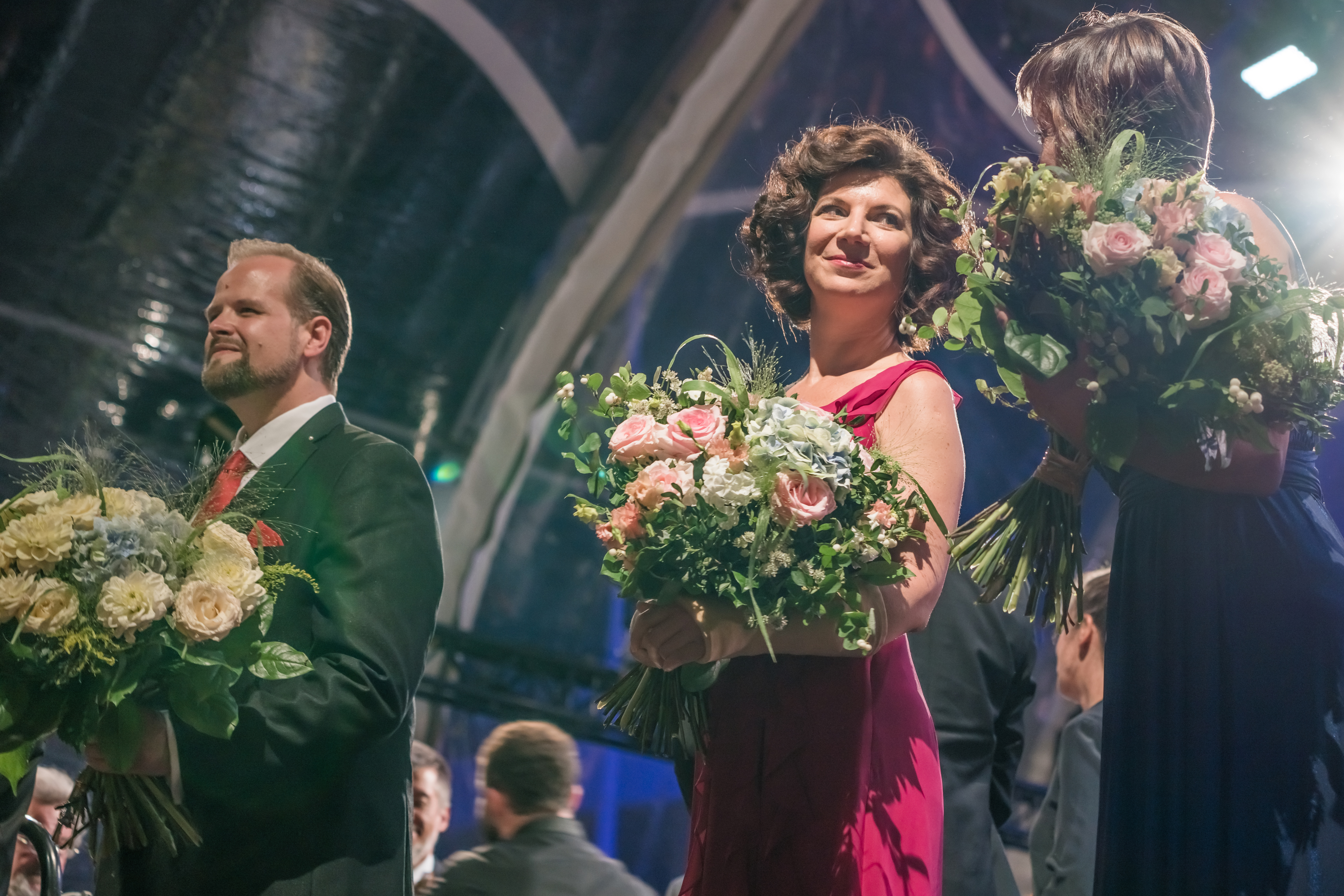 On 24 August 2019 the Berlin Philharmonics gave an open air concert at Brandenburg Gate in Berlin, with an audience of nearly 35,000 people. The conductor was Kirill Petrenko from Russia. The orchestra performed Beethoven's Symphony No. 9 D minor Op. 125.